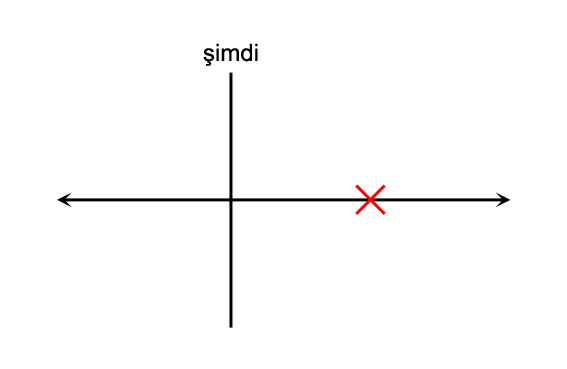 future tense